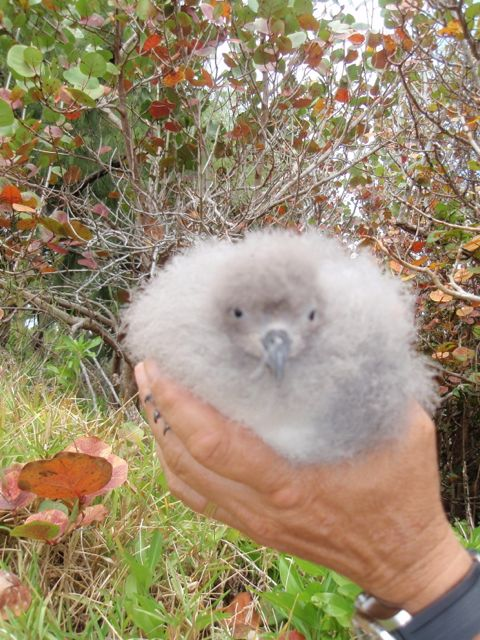 Bermuda petrel or cahow chick at Nonsuch Island with Bermuda conservation officer Jeremy Madeiros, April 2009.